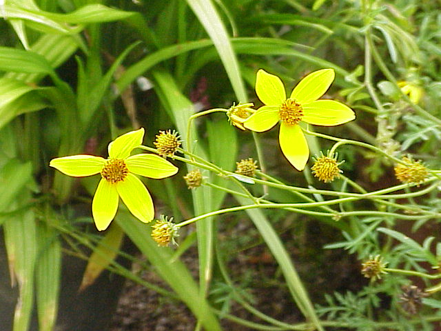 Species: Bidens ferulifolia, flowers. Family: Asteraceae Image No. 3